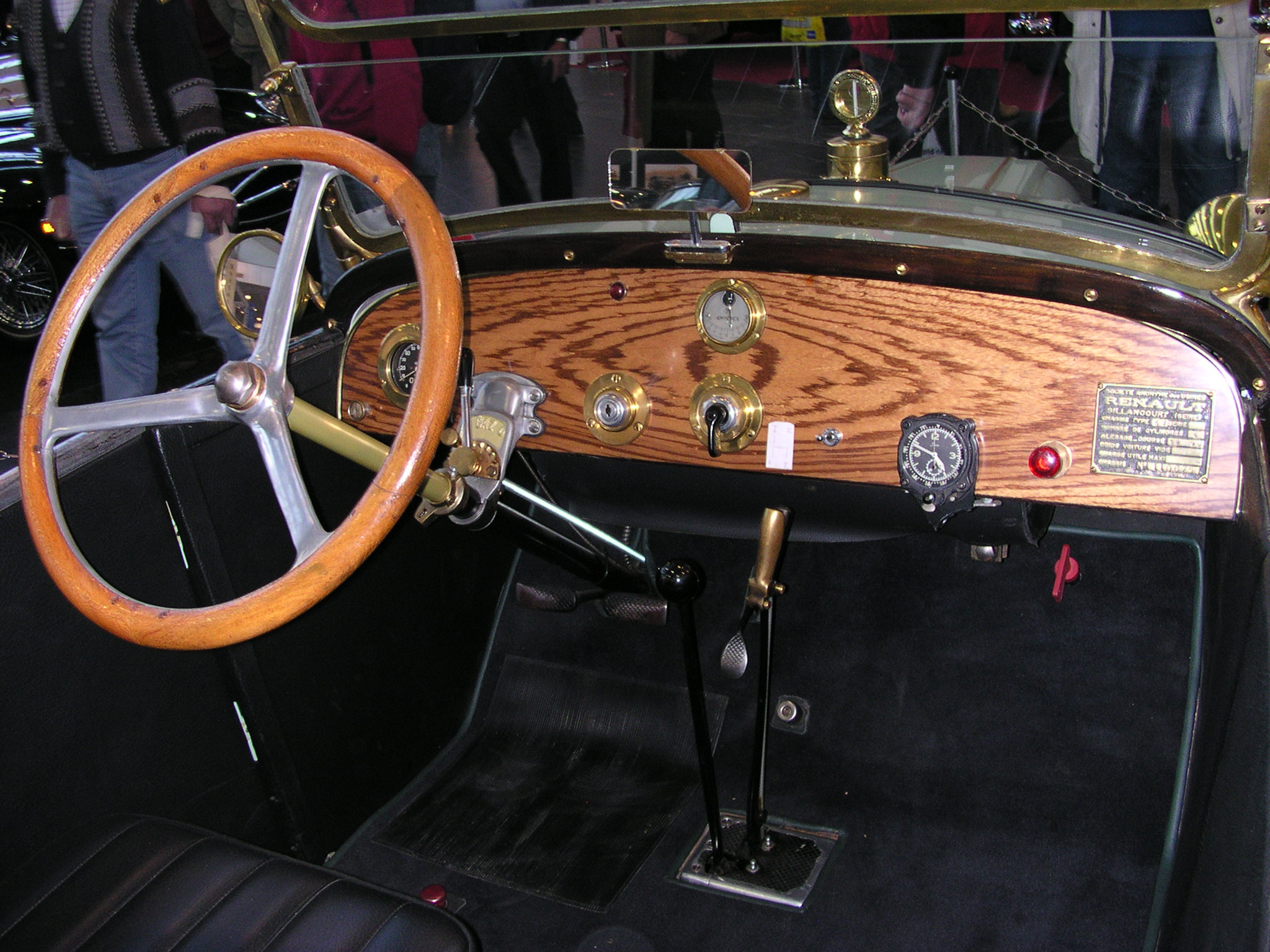 Essen Techno-Classica 2007, Renault KJ Torpedo 1922